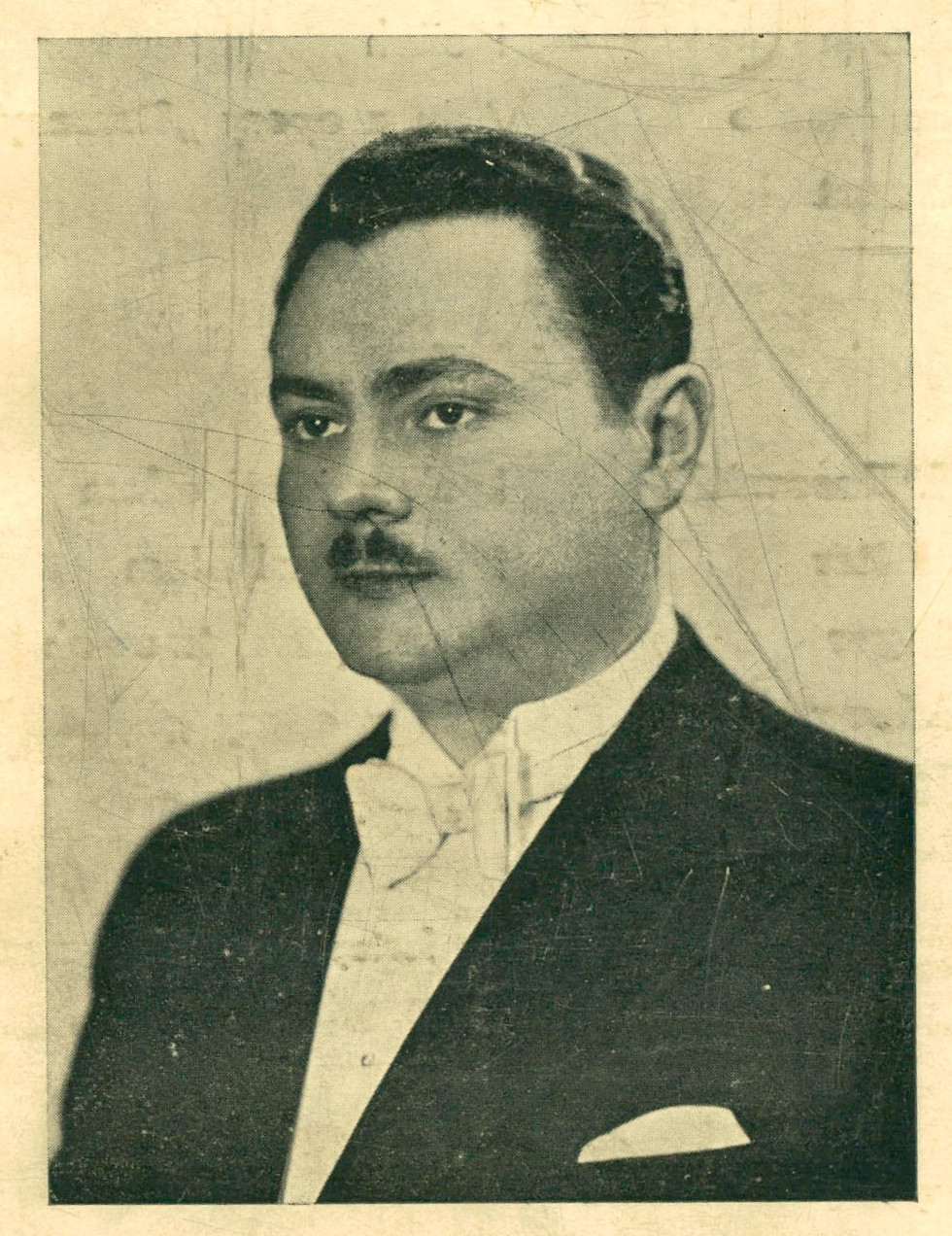 Mosze Kusewick, [1918-1939] r.